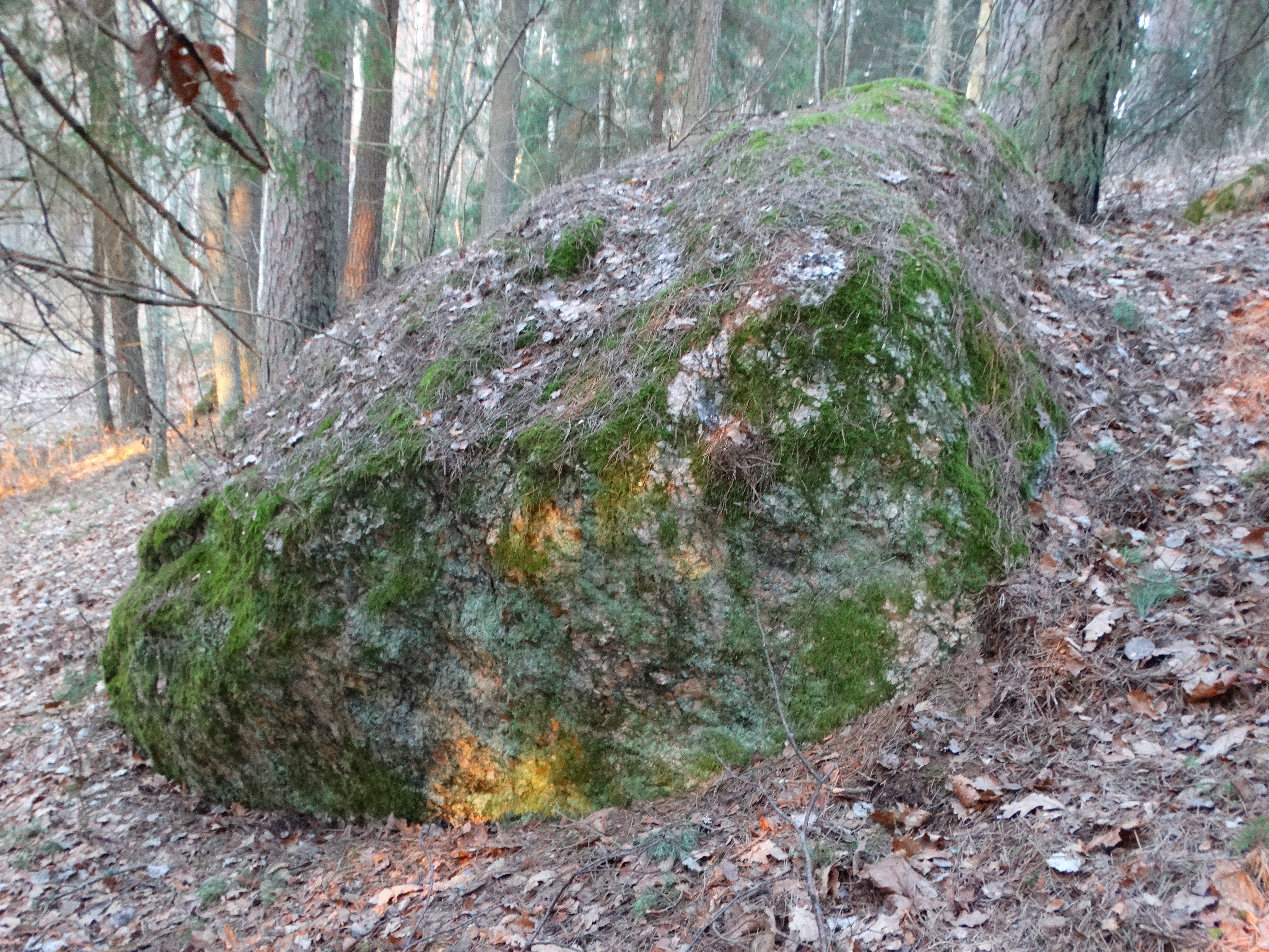 Laumės Stone, near Urkuvėnai, Šiauliai district, Lithuania